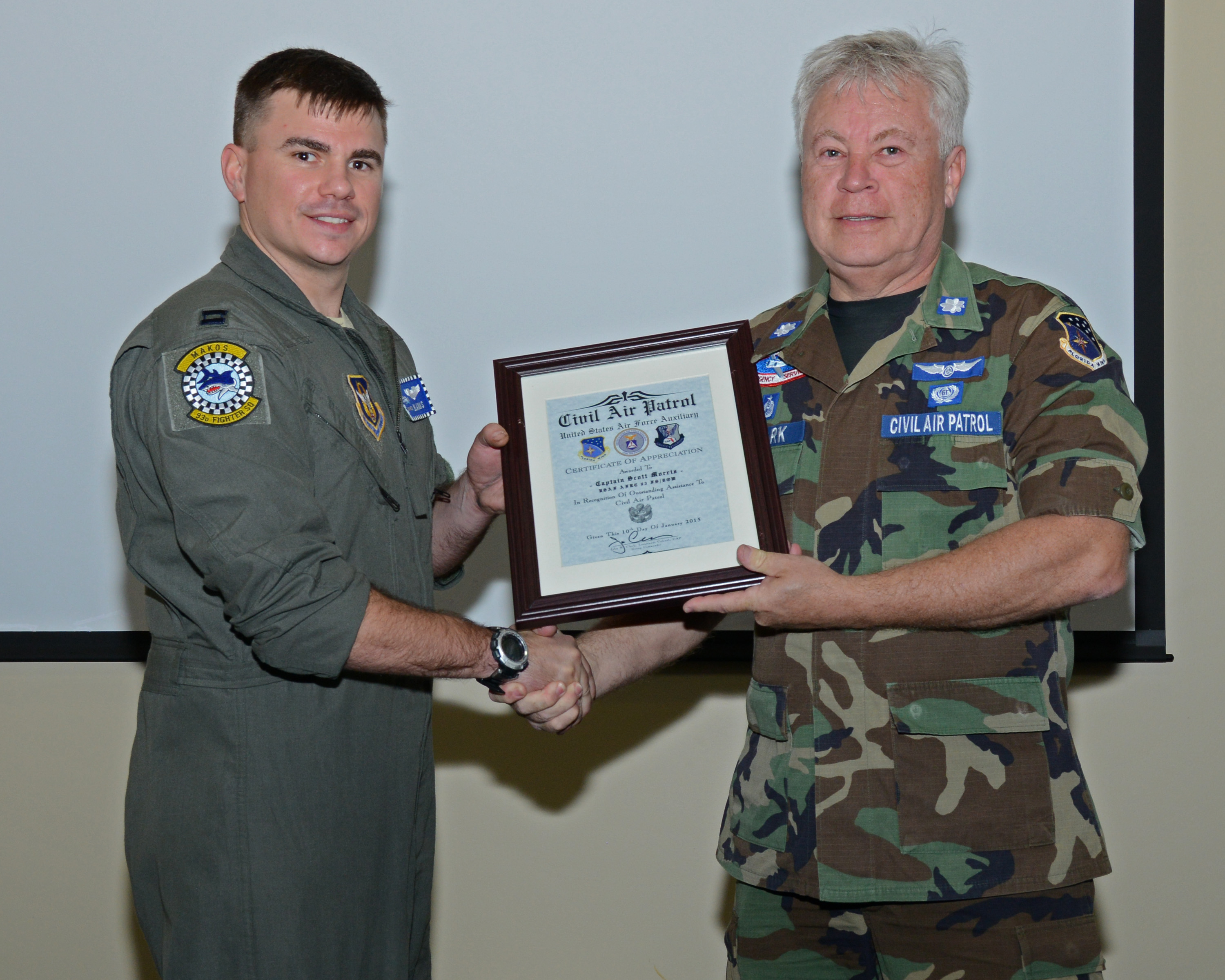 John Clark, Commander of Civil Air Patrol Group 6, presents Capt. Scott Morris, 93rd Fighter Squadron pilot, with a certificate of appreciation at Homestead Air Reserve Base, Fla., Jan. 10. Morris led a tour introducing the young cadets to some in-depth information on the process on becoming a pilot. (U.S. Air Force photo/Senior Airman Nicholas Caceres)